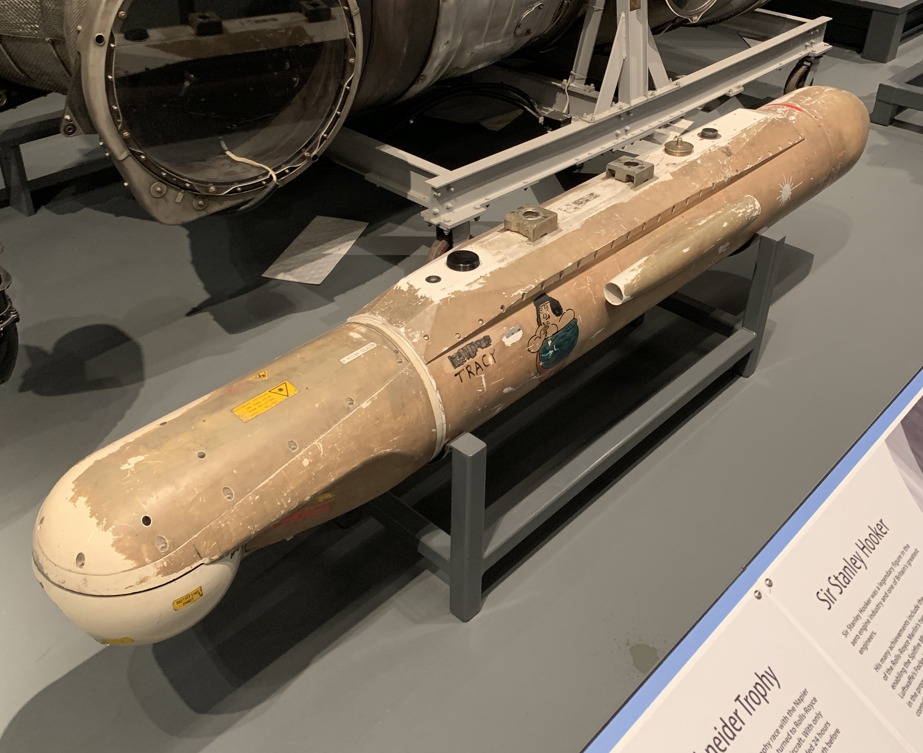 Image of a Thermal Imaging and Laser Designation pod (TIALD)